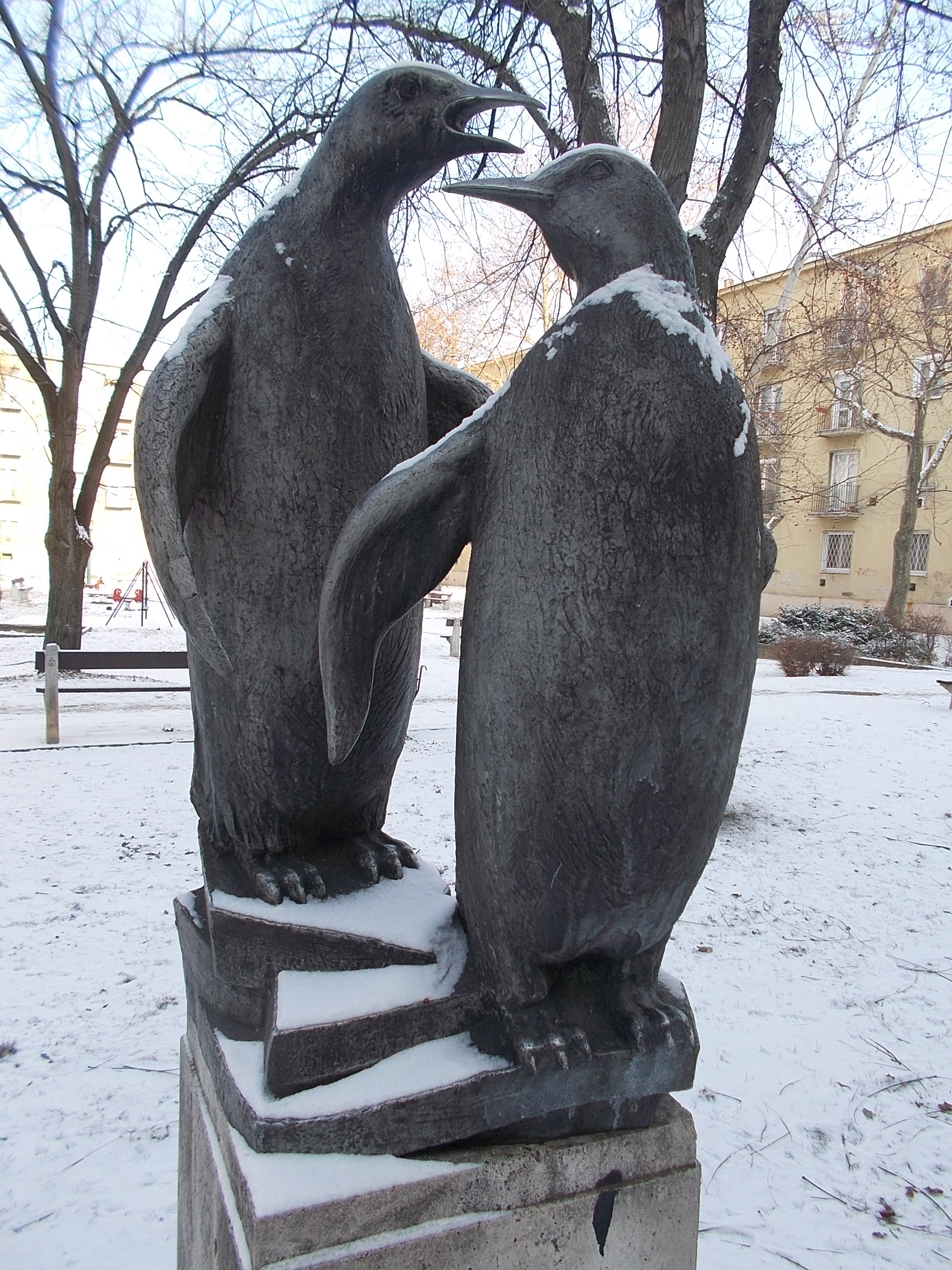 Penguins by Sandor Boldogfai Farkas at Szárnyas Street housing estate. - 2 and 4 Szárnyas Street, Gyárdűlő neighborhood, Budapest District X.